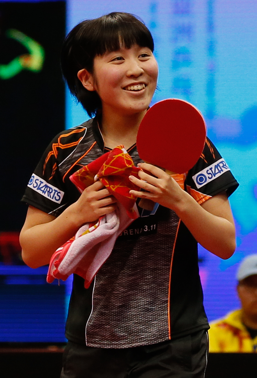 Miu Hirano